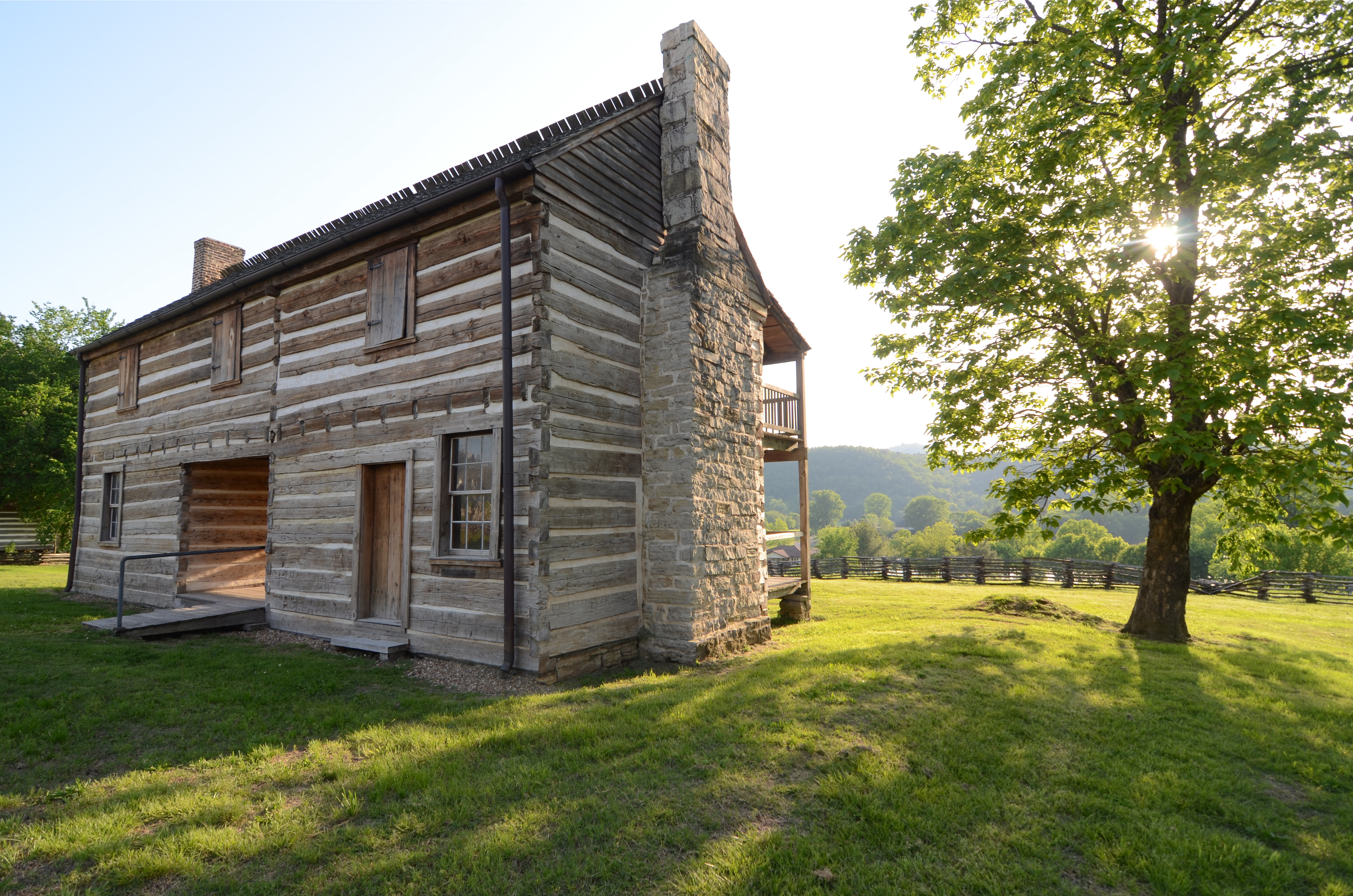 The Jacob Wolf House built in 1829